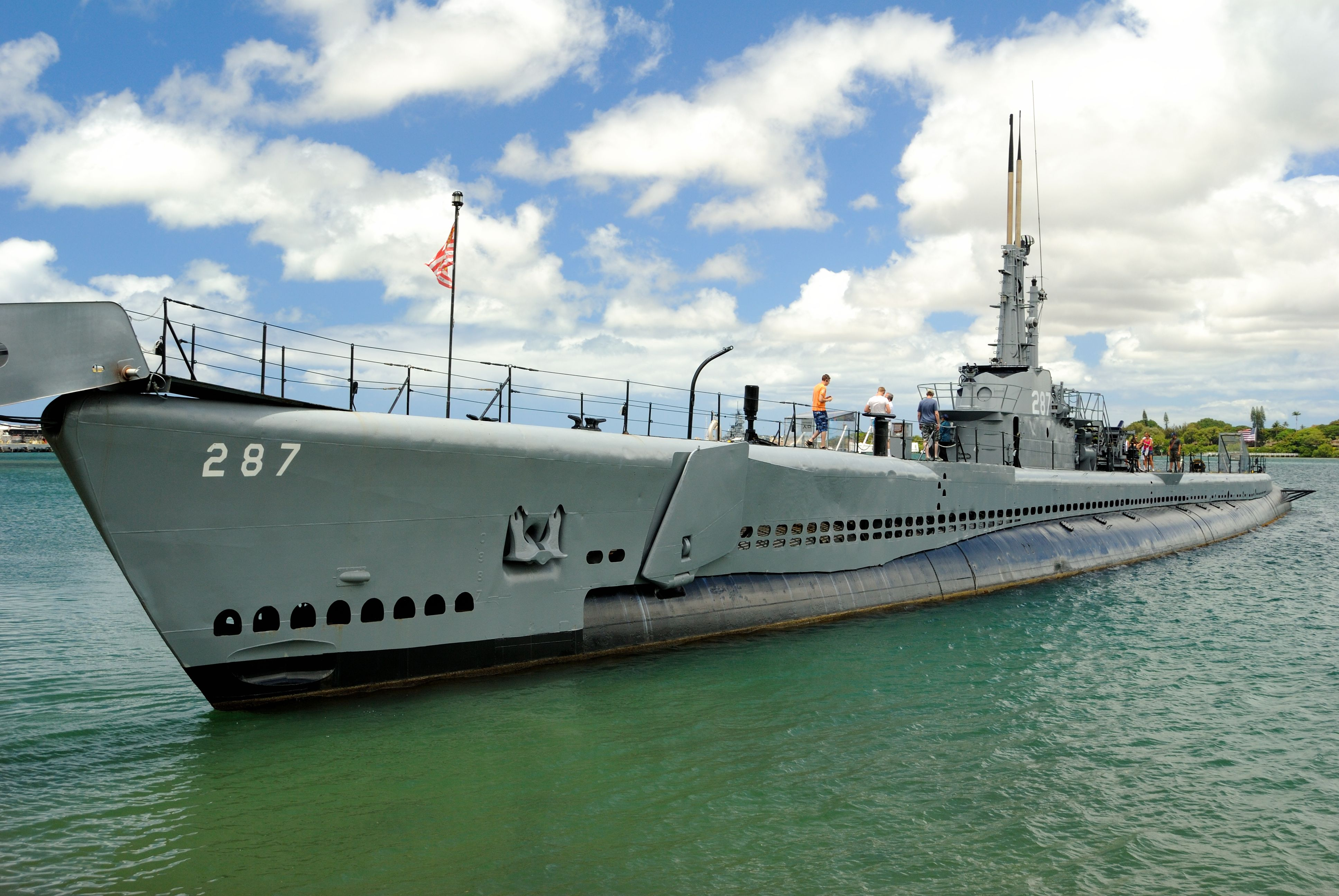 USS Bowfin